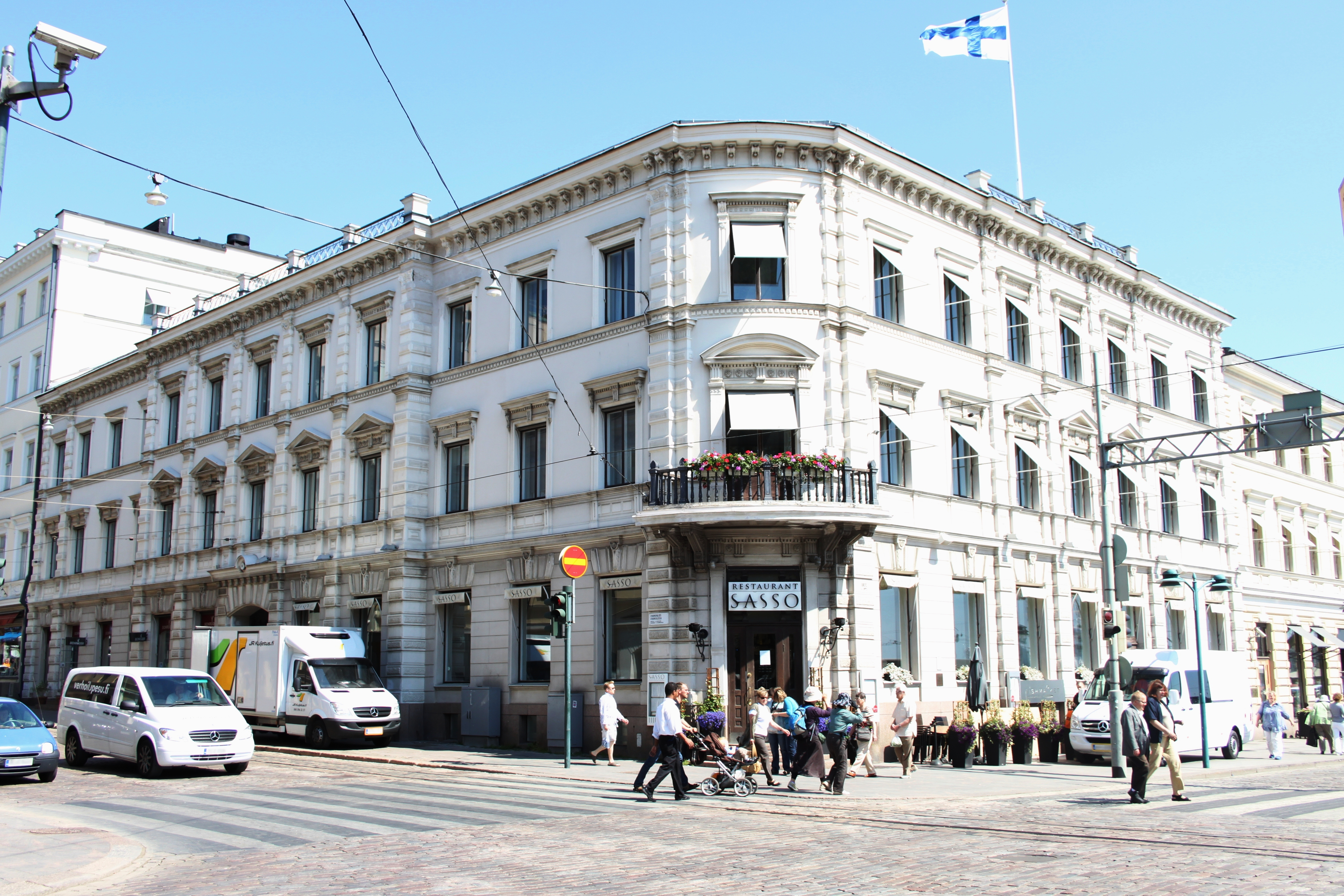 Aschan's house, Unioninkatu 23 – Pohjoisesplanadi 17, Helsinki, Finland. Architects: Gabriel Andstén & Aarno Ruusuvuori. Built 1833, rebuilt 1971